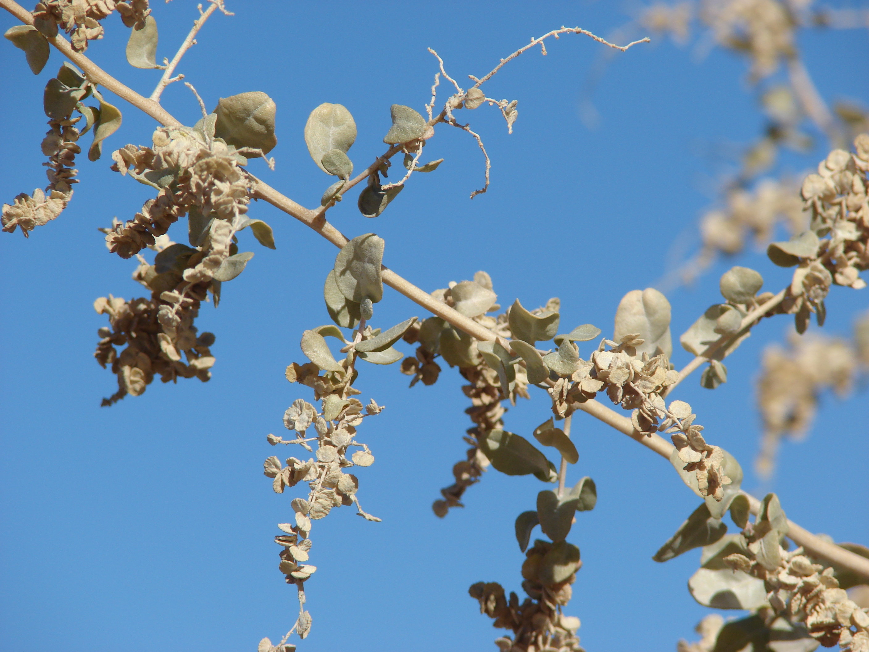 Atriplex lentiformis (fruit and leaves). Location: Nevada, The Wash